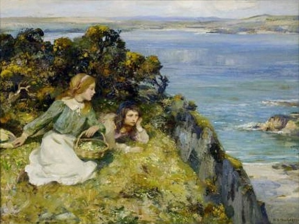 On the Clifftop